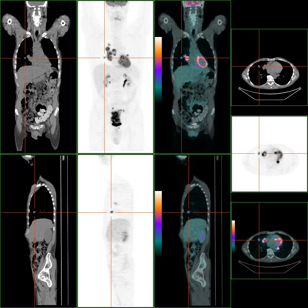 PET/CT of a staging exam of colon carcinoma. Besides the primary tumor a lot of lesions can be seen. On cursor position: lung nodule. Imaging parameters: Patient: 69kg, 186cm. Scanned 45 minutes after injection. Injected dose: 300mBq FDG, total acquisition time: 6 minutes. Device: GE PET/CT Discovery 600